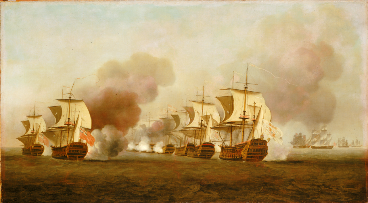 When Rear-Admiral Charles Knowles was cruising in search of a Spanish treasure fleet off Havana in 1748, he heard of a squadron of seven Spanish men of war nearby. He met them on 1 October and a brisk action ensued and one of the Spanish ships, the 'Conquistador', was captured by the admiral. The Spanish flagship was so badly damaged that her crew fired her to prevent her capture two days later. Despite the English advantage, it was thought that Knowles had not handled his squadron well and on his return to England he was court-martialled and reprimanded. This painting shows the action in progress. On the left of the picture are two English two-deckers to weather of the Spanish line, shown on the same tack. They are engaged and the main topgallant mast and yard of the second ship is being shot away. On the right of the picture in the background, and far down to lee is Knowles's flagship the 'Cornwall' repairing her topmast and engaged with the 'Conquistador'. Several other ships are near her including the two-decker with red galleries.